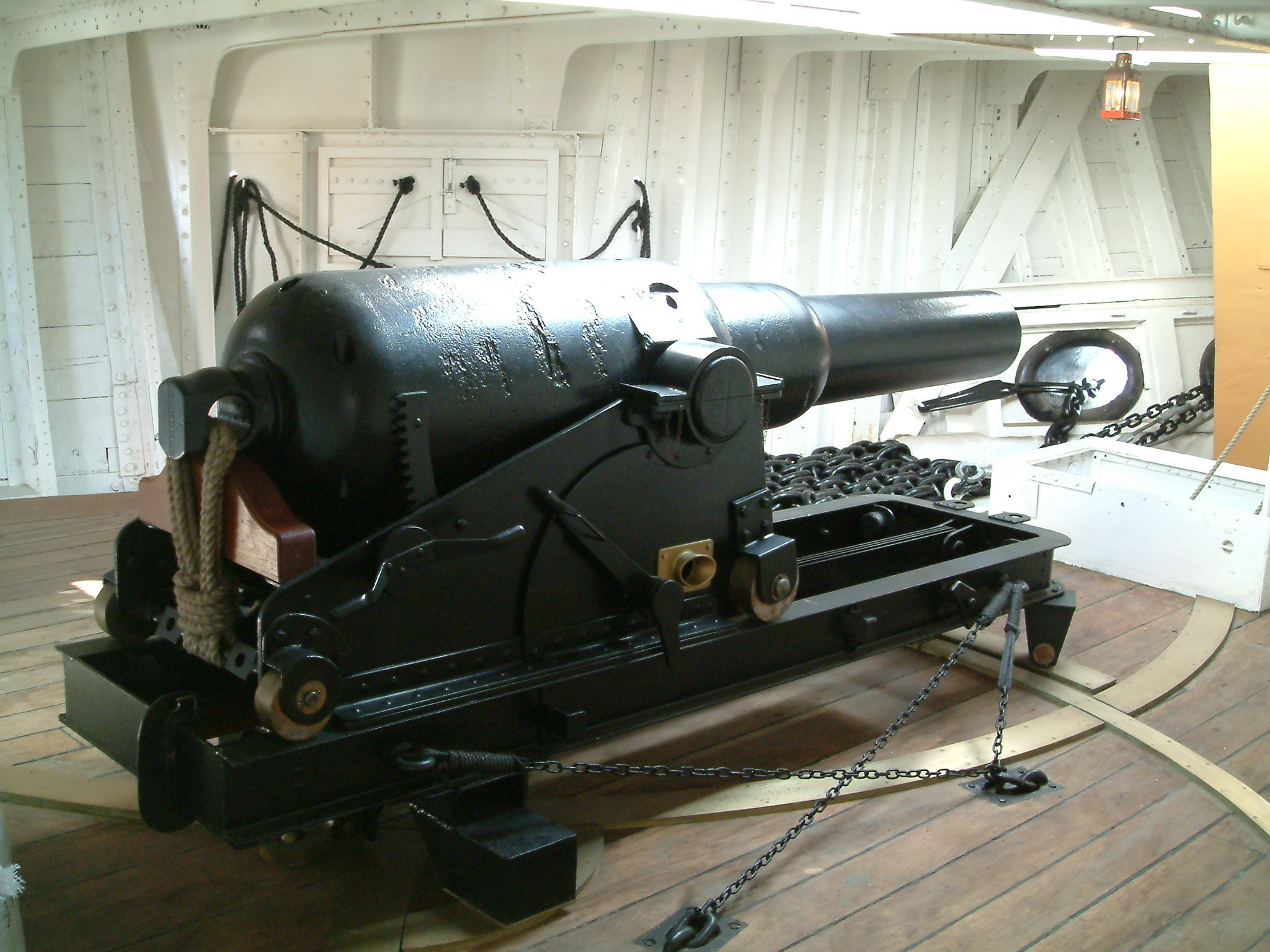 Photograph of a 6.3 inch rifled muzzle loading gun : RML 64 pounder 64 cwt : on HMS Gannet at Chatham Dockyard, UK